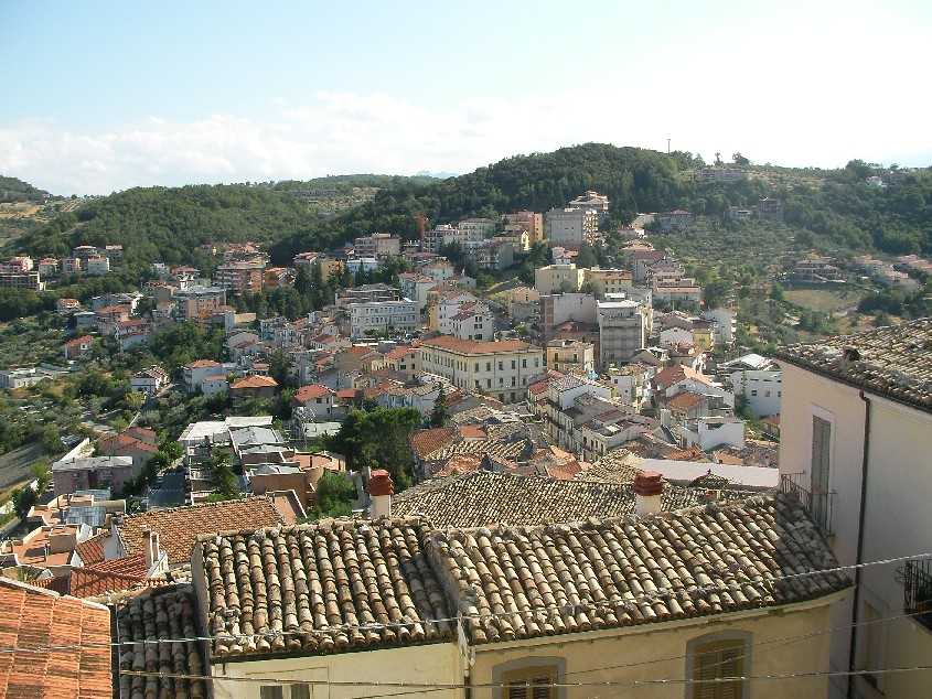 View of Casoli from the tower of the ducal castle